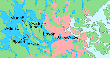 Based on Image:La2-demis-malaren.png which is Public Domain. I have inserted the names of some islands somwhat arbitrary so I take credit for that, if possible.